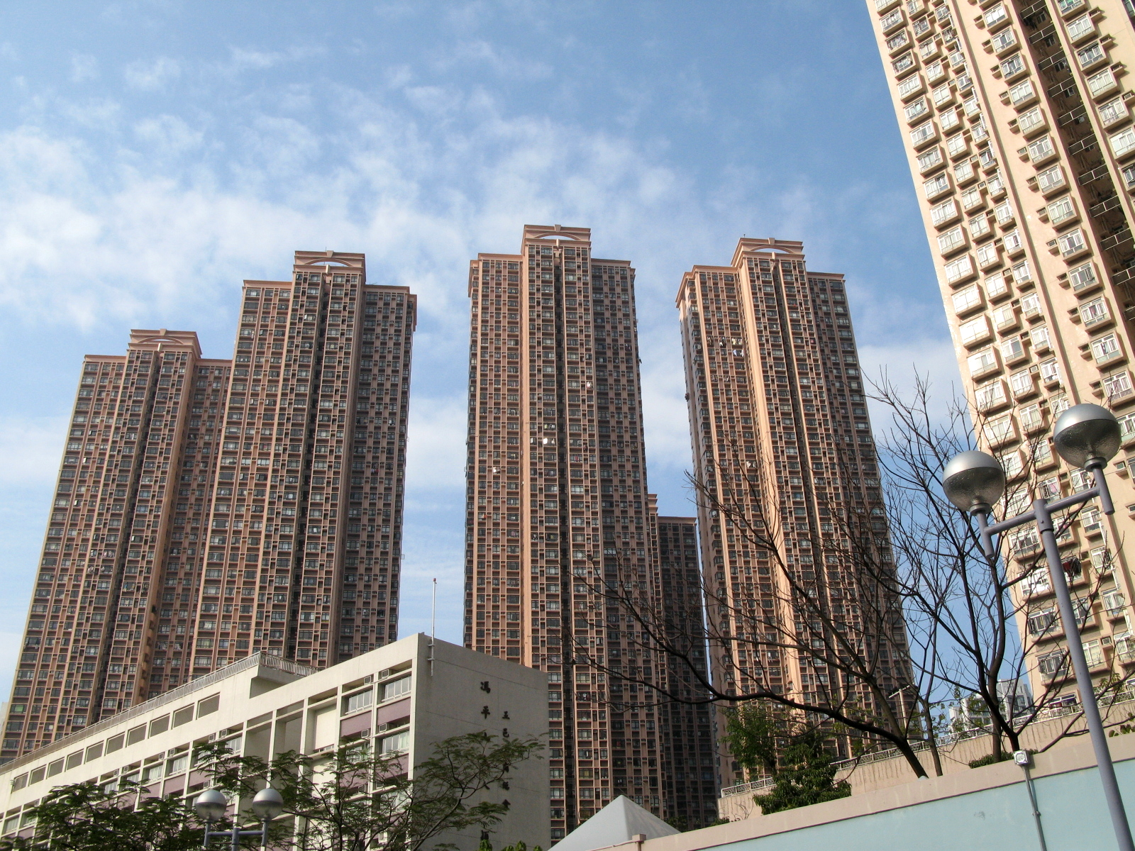 HK MOS Sunshine City Plase4